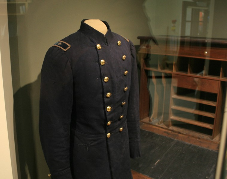 Stonewall Jackson's major's coat, which he used in VMI and in his first battles